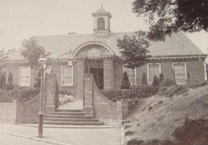 Northfield Free Library (an image of this postcard, of which this is a section, has appeared in the following publication: Marks, John, Northfield on Old Picture Postcards, Yesterday's Warwickshire Series No. 6 (Reflections of a Bygone Age, Keyworth, 2005), image No. 42)